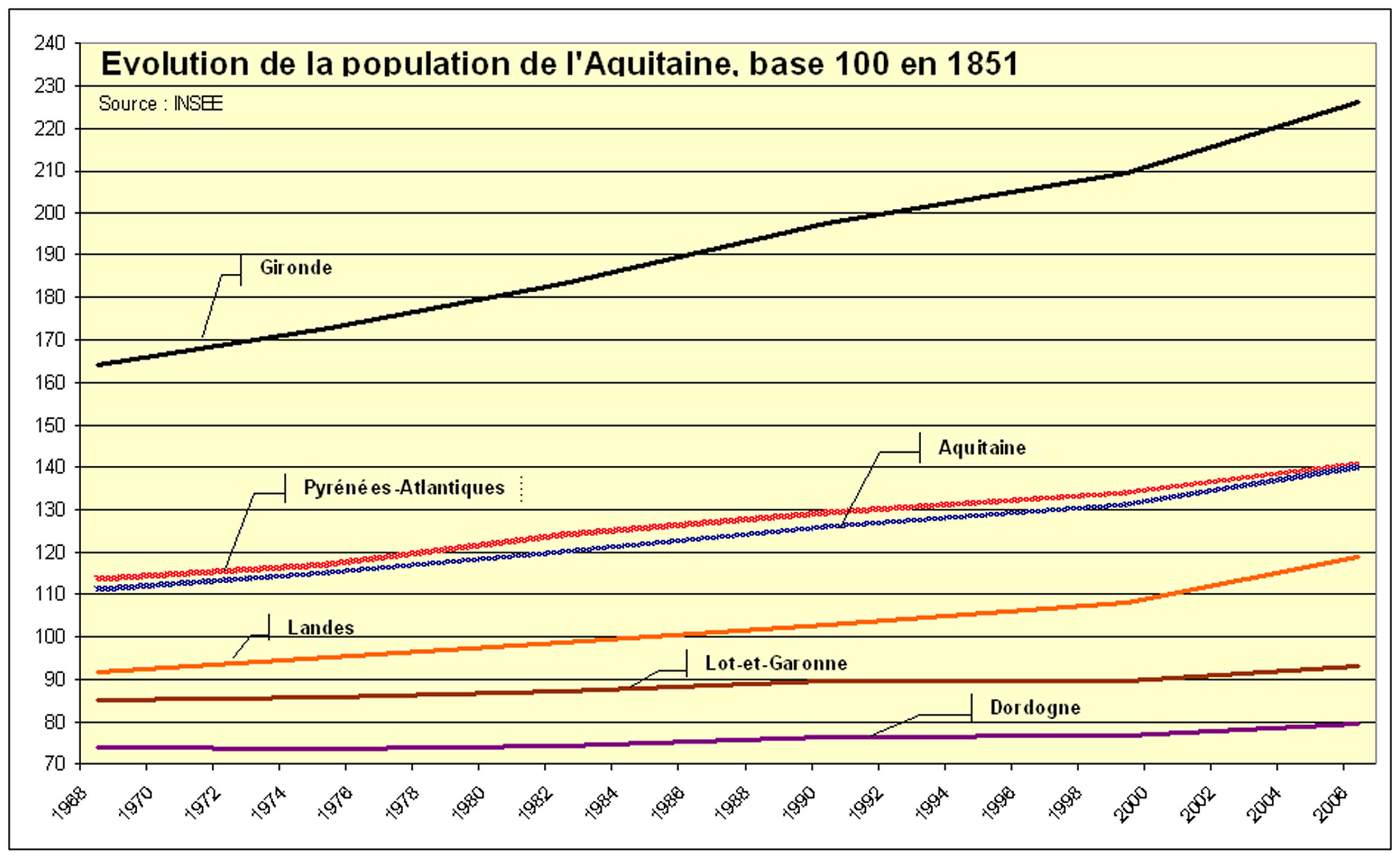 The population change in Aquitaine (100 in 1851)